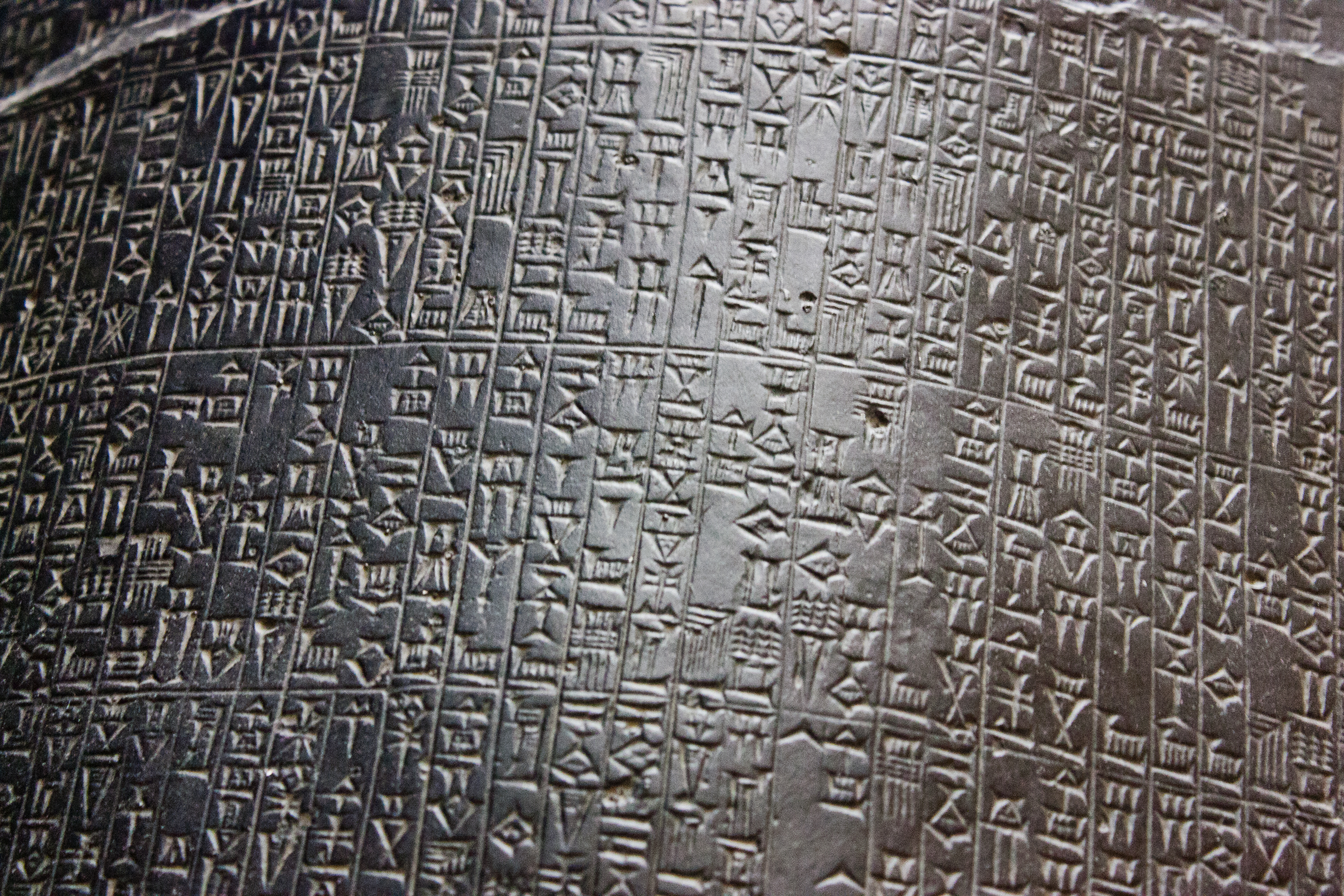 Code of Hammurabi